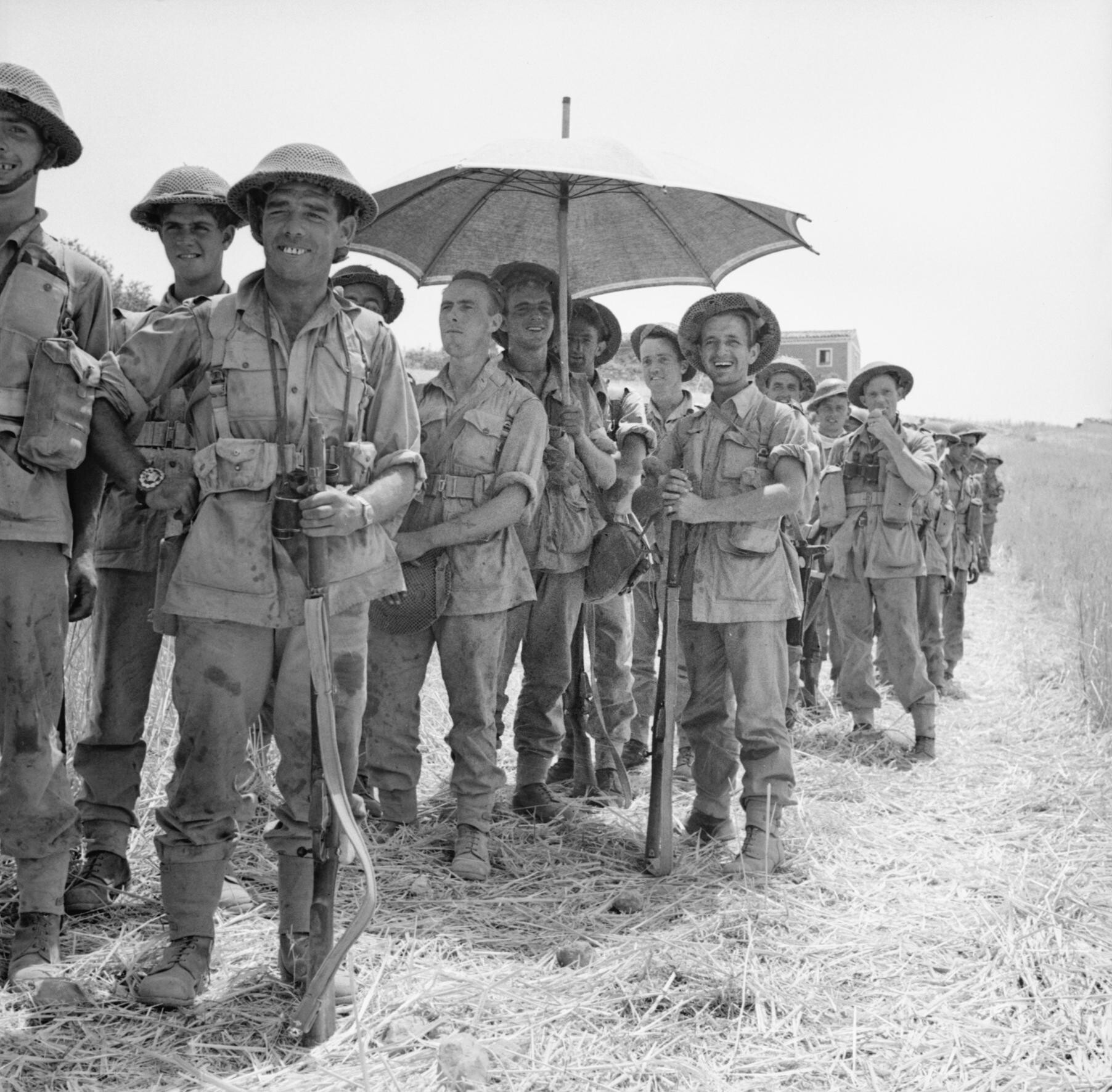 Men of the 6th Battalion, The Royal Inniskilling Fusiliers, 78th Division, await orders to move into Centuripe, Sicily, 2 August 1943. Men of the 6th Inniskillings, 78th Division, await orders to move into to Centuripe, 2 August 1943. The umbrella was used to shade the wounded.